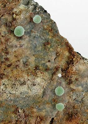 Kolbeckite Locality: Schlarbaum quarry, Klause, Bad Gleichenberg, Styria, Austria (Locality at ) Size: 4.9 x 3.9 x 2.3 cm. Kolbeckite is a very rare scandium-rich phosphate mineral species (and there are not many such species). This is from a classic occurrence, and features relatively large spherical aggregates of microcrystals to just over 1mm in size, nicely isolated and so easily eye-visible. This is, for the material, extremely rich.